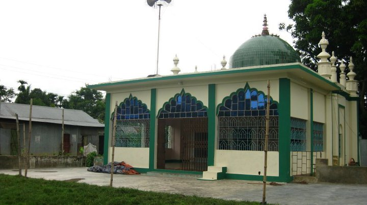 আনসার মুখতার মসজিদ, Ansar Mokhtar Mosque, Brahmanbaria